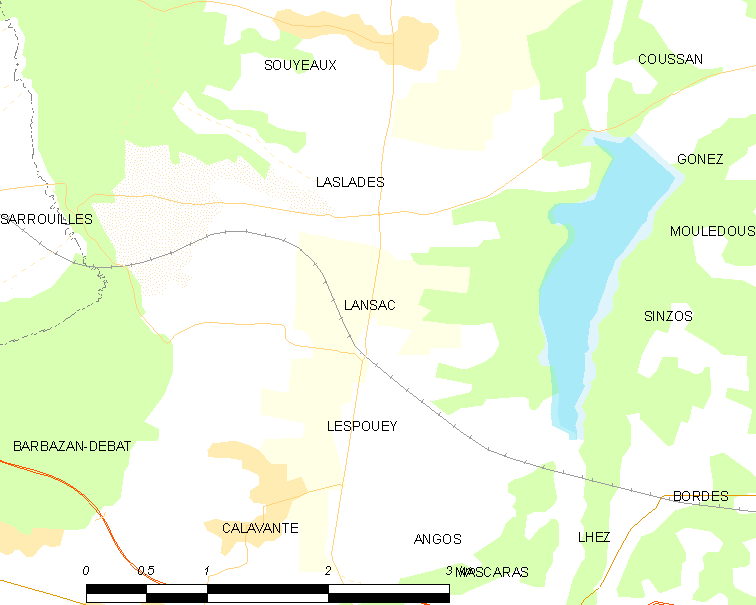 Map of French municipality